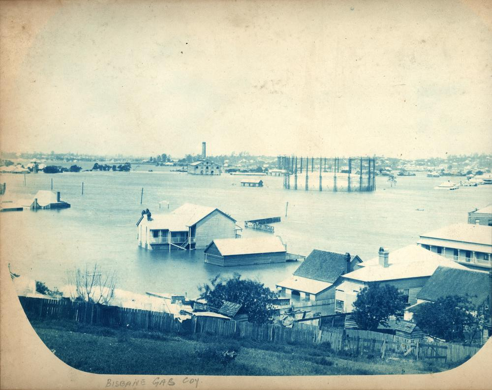 Brisbane Gas Company buildings are surrounded by floodwaters, Brisbane, 1893. Cyanotype (blue print) photographs, which was a very popular process during the late 19th and early 20th centuries.